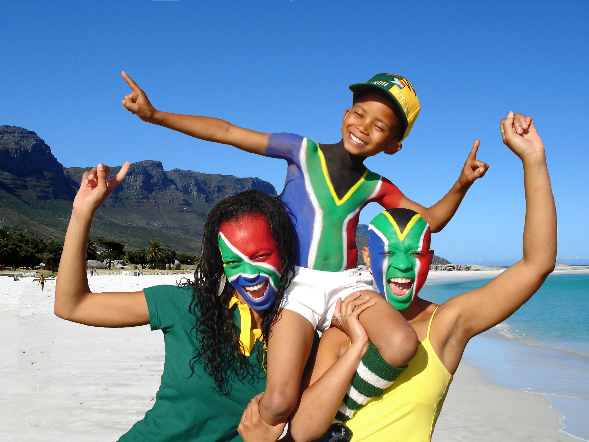 Fans celebrating the upcoming 2010 FIFA World Cup in South Africa (Camps Bay, Cape Town). The picture was taken in South Africa 2007. The girl on the right side took part in the opening ceremony in soccer city Johannesburg 2010 as a Capoeira Artist and in the closing ceremony as a dancer with Shakira.